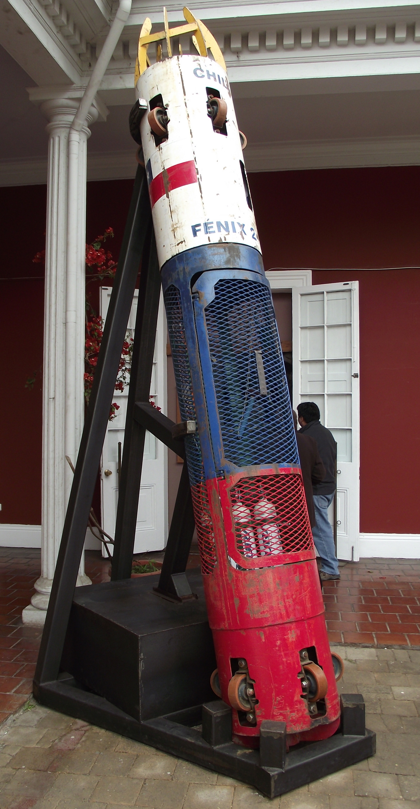 Fenix 2 rescue capsule on display in the Atacama Regional Museum, Copiapo, Chile. This capsule was used in the rescue of 33 miners in the San José mine in october 2010.